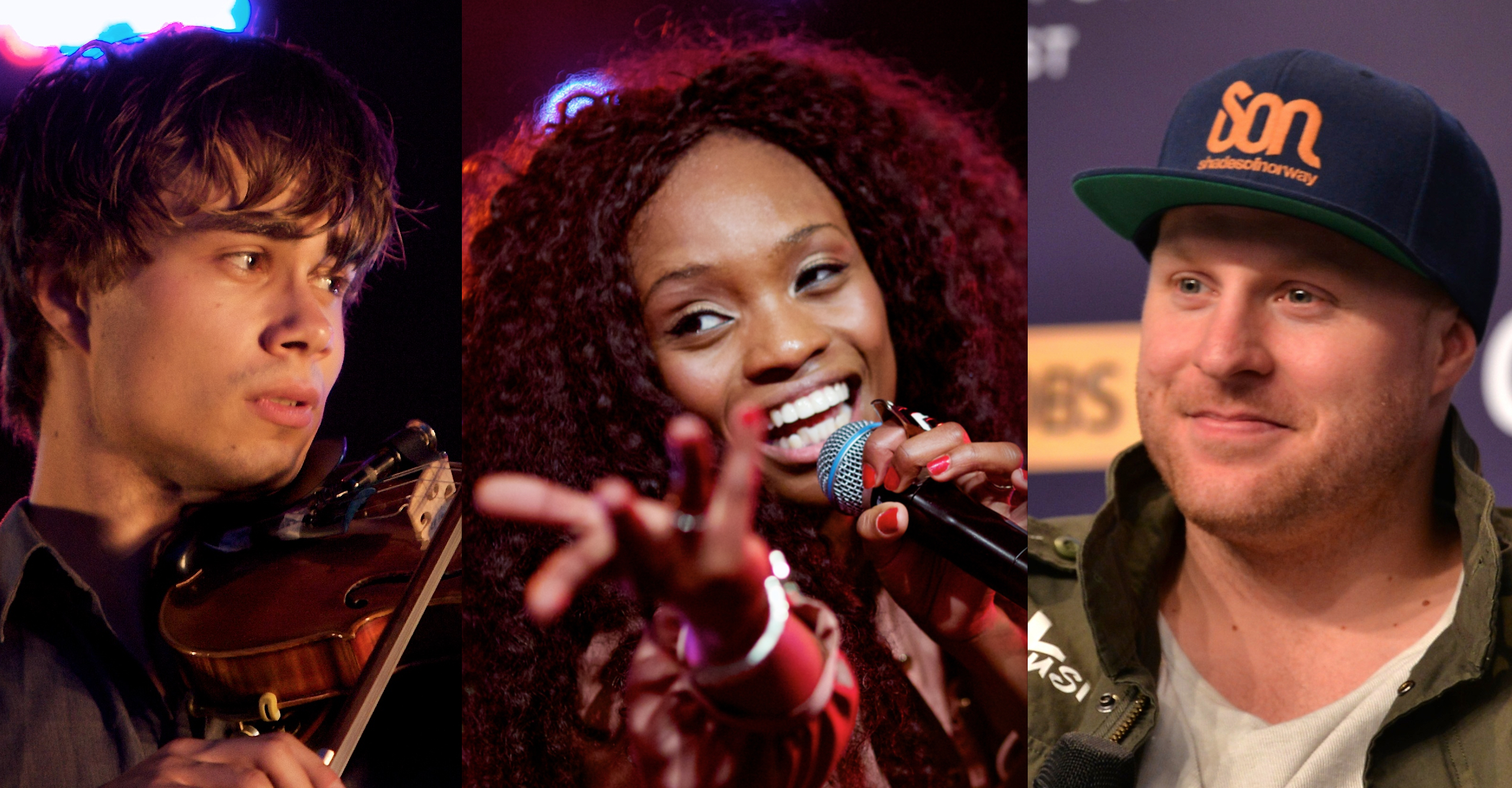 Alexander Rybak (left), Stella Mwangi and Aleksander Walmann are some of the artists in Melodi Grand Prix 2018.